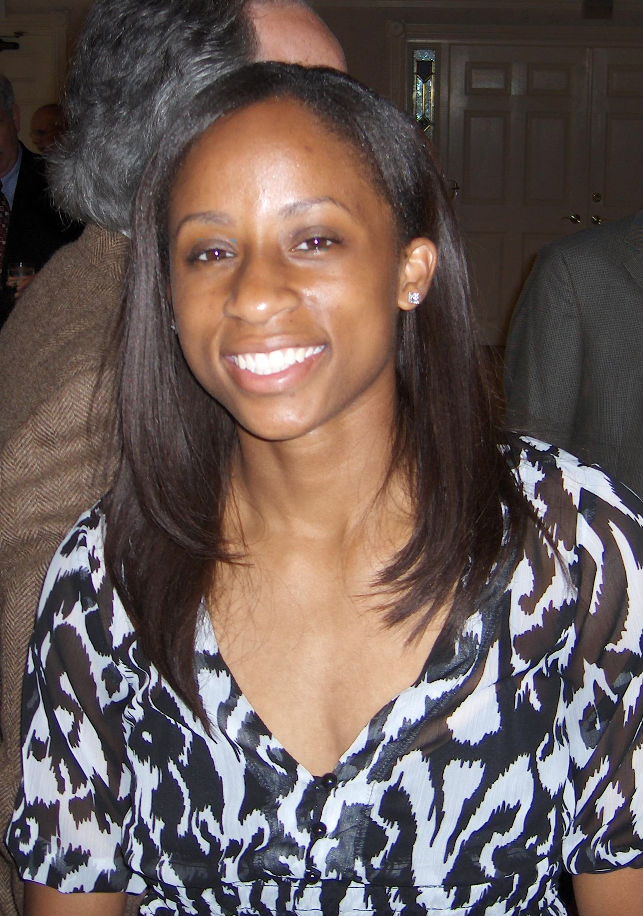 Lorin Dixon, at Championship Dinner 2009